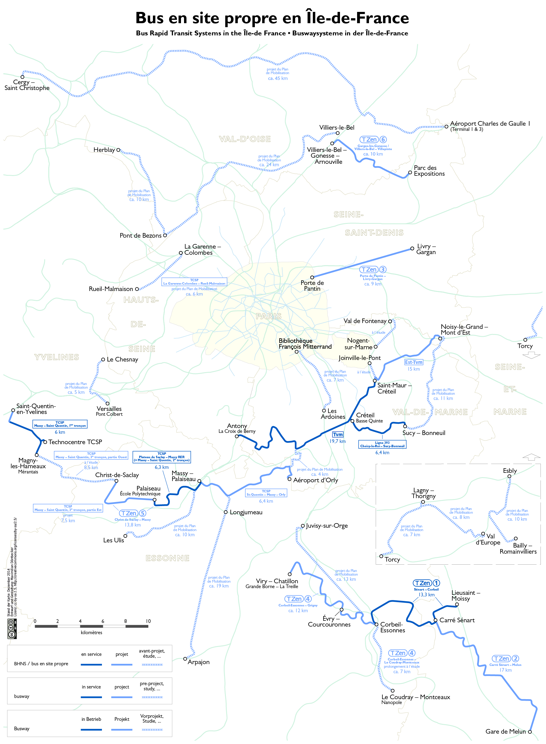 Map of the Île-de-France: Bus routes with own right-of-way as planned in 2009